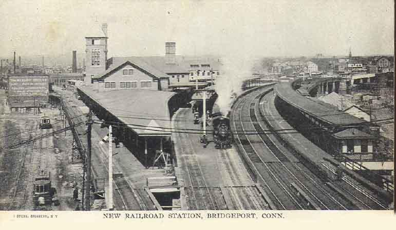 Picture postcard of the Bridgeport Railroad Station in 1907